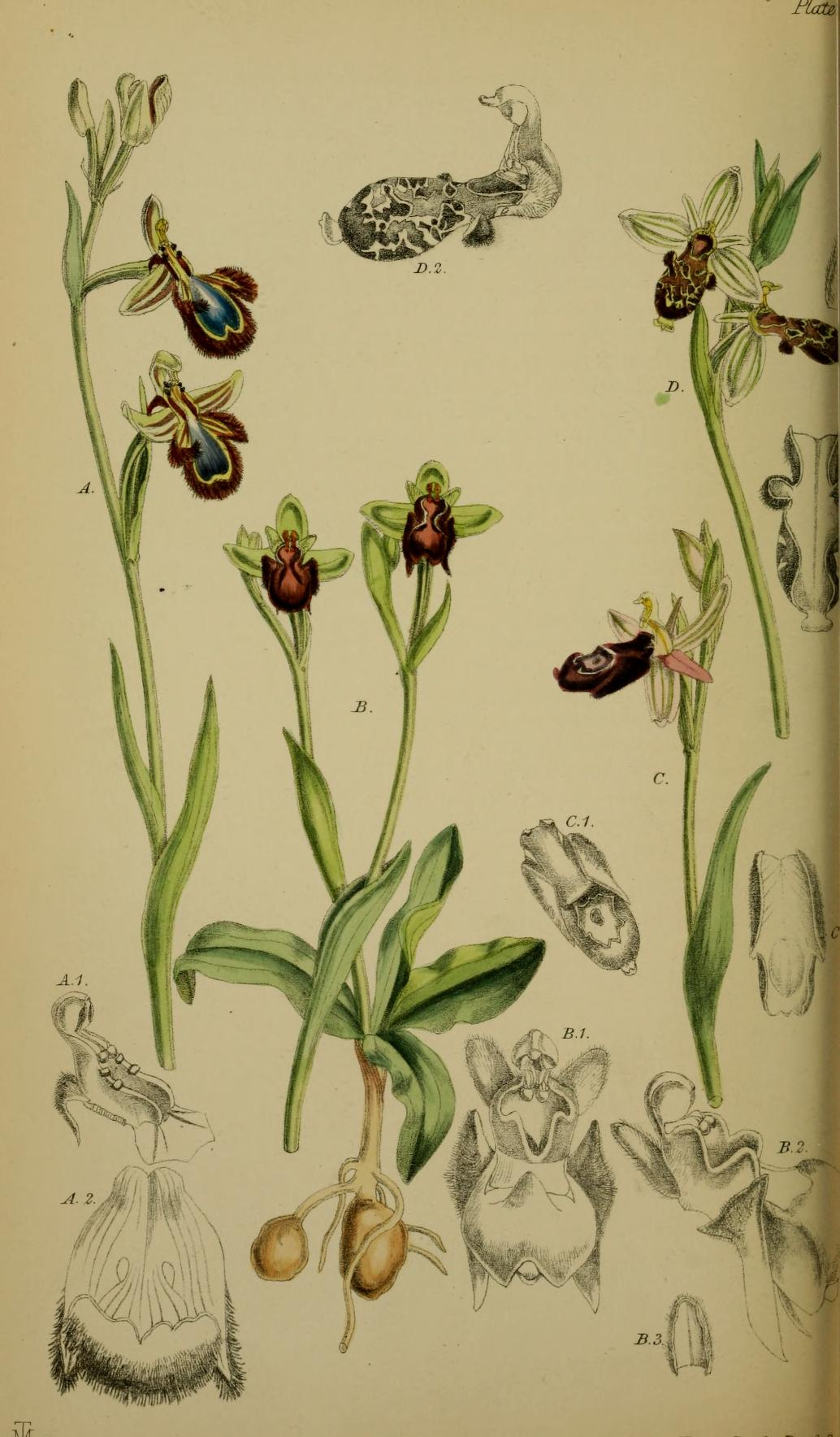 Illustration of: A. Ophrys speculum B. Ophrys bombyliflora C. Ophrys bertolonii (as syn. Ophrys insectifera var. bertolonii) D. Ophrys insectifera (as Ophrys insectifera var. philippei)